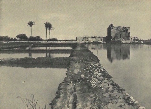 Tel Afek